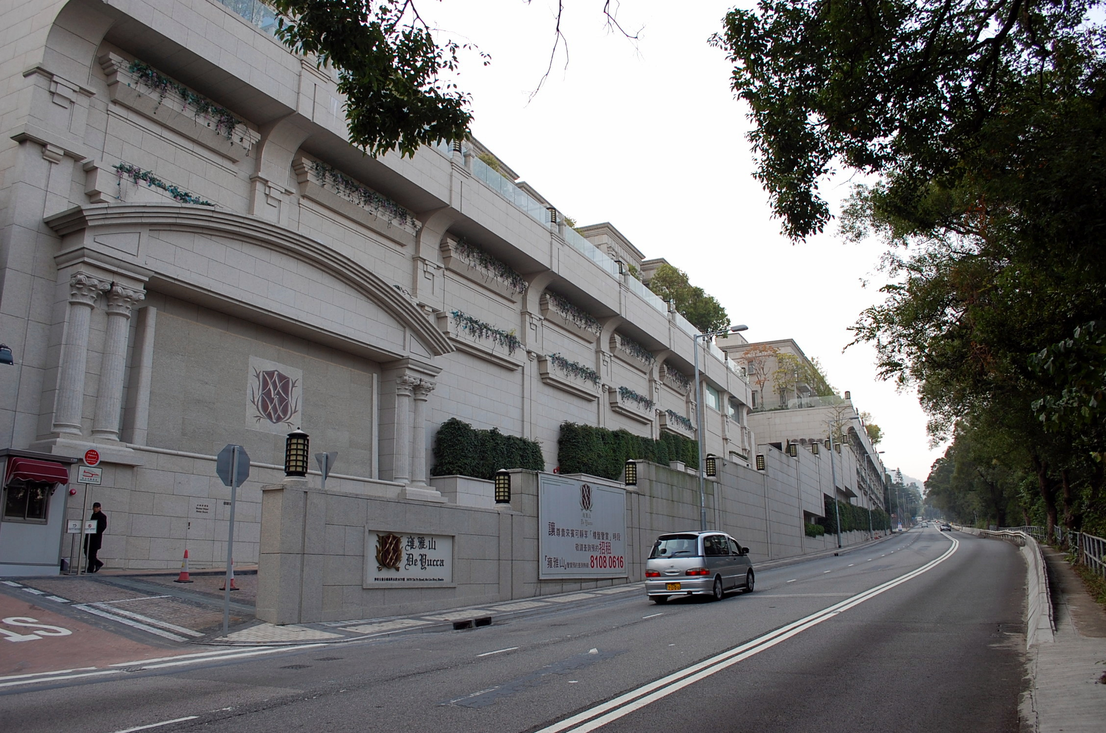 A view of the De Yucca luxury housing development on Tai Po Road (Ma Liu Shui section) in December 2013. Former site of the Yucca de Lac restaurant. 中文（香港）: 雍雅山, 雍雅山房重建計劃